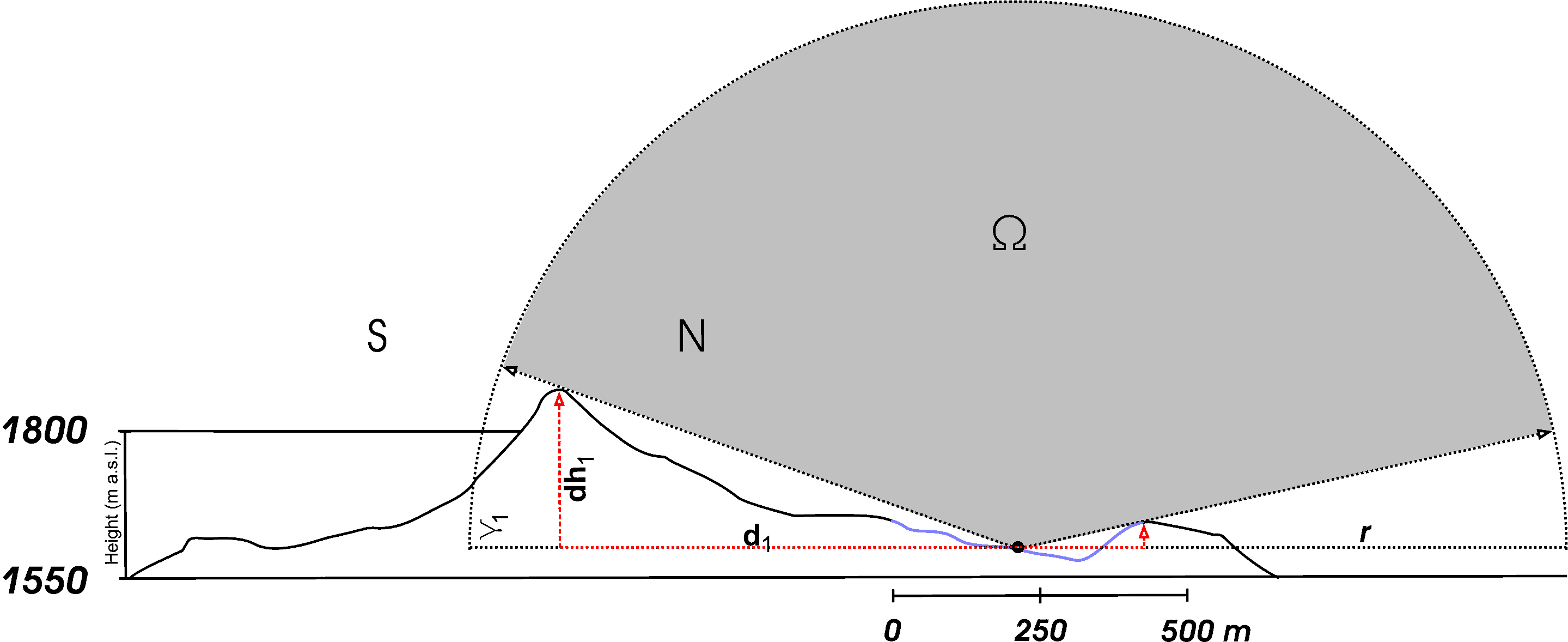 SVF-sky view factor for a palaeodepression in the souther sub-adriatic Dinaric Alps